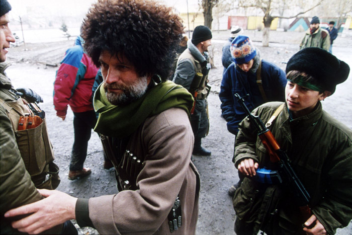 Chechen fighters on the streets of the capital, Grozny, January 1995.